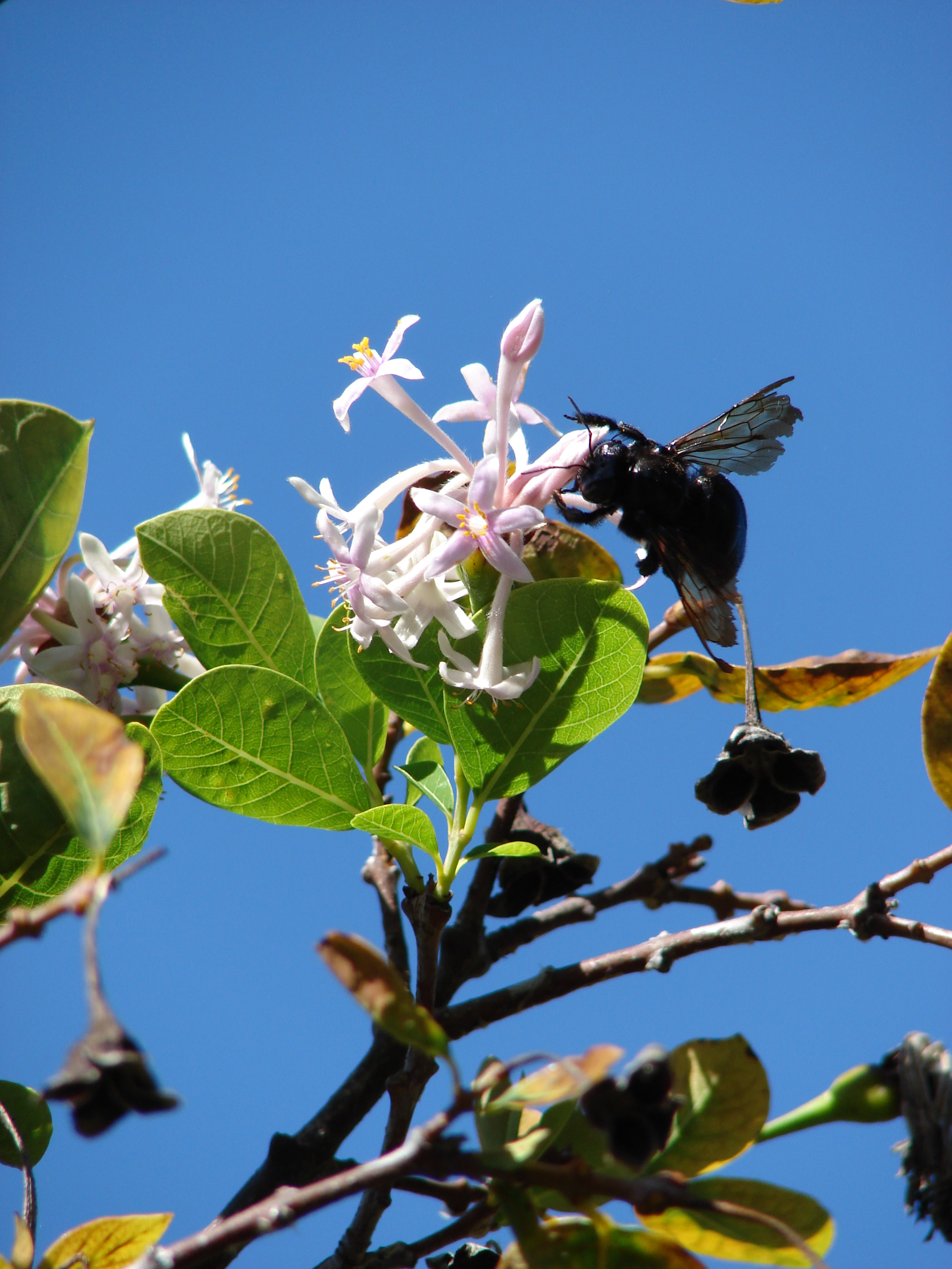 Dais cotinifolia (flowers with Sonoran carpenter bee). Location: Maui, Enchanting Floral Gardens of Kula